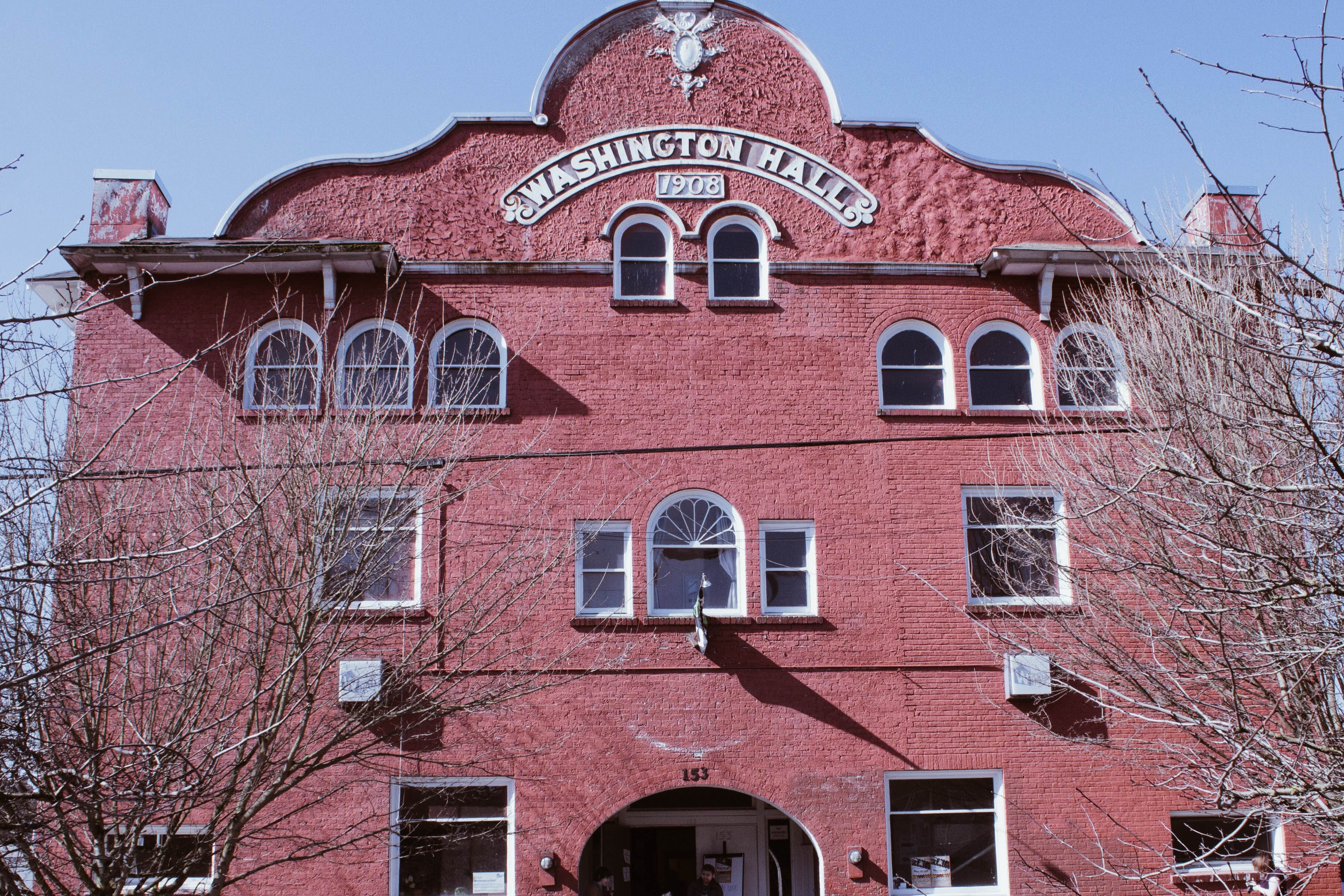 Washington Hall exterior in March 2013. Washington Hall (also Washington Performance Hall), 153 14th Avenue, Seattle, Washington, USA. Built 1908 as a settlement house by the Danish Brotherhood Society in 1918.